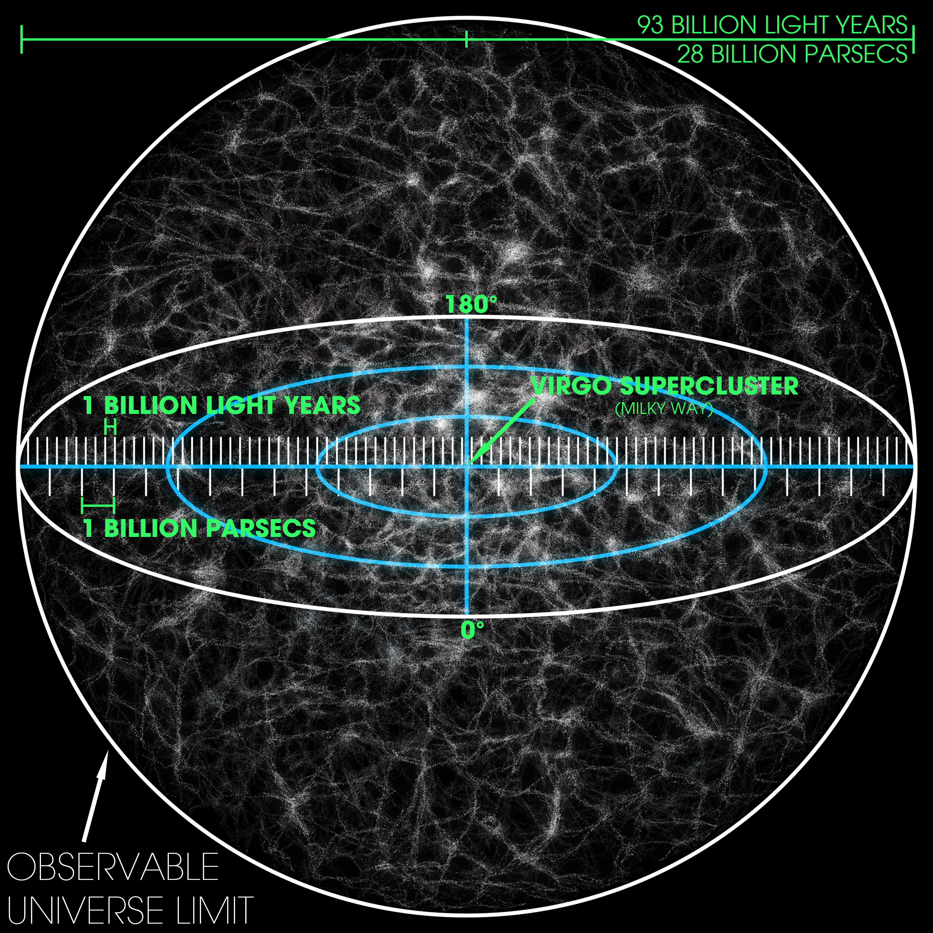 "A simulated view of the entire observable universe", approximately 93 billion light years (or 28.5 billion parsecs) in diameter. The scale is such that the fine grains represent collections of large numbers of superclusters. The Virgo Supercluster—home of Milky Way—is marked at the center, but is too small to be seen in the image. Uploader did not explain what the "simulation" is based on? Was any observational data taken into account, or is this a purely fictional simulation of a distribution loosely similar to that found in observation?